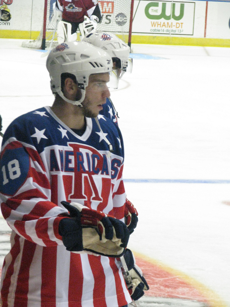 Andrew Sweetland - Rochester Americans vs Lake Erie Monsters on October 3, 2009 at Blue Cross Arena.